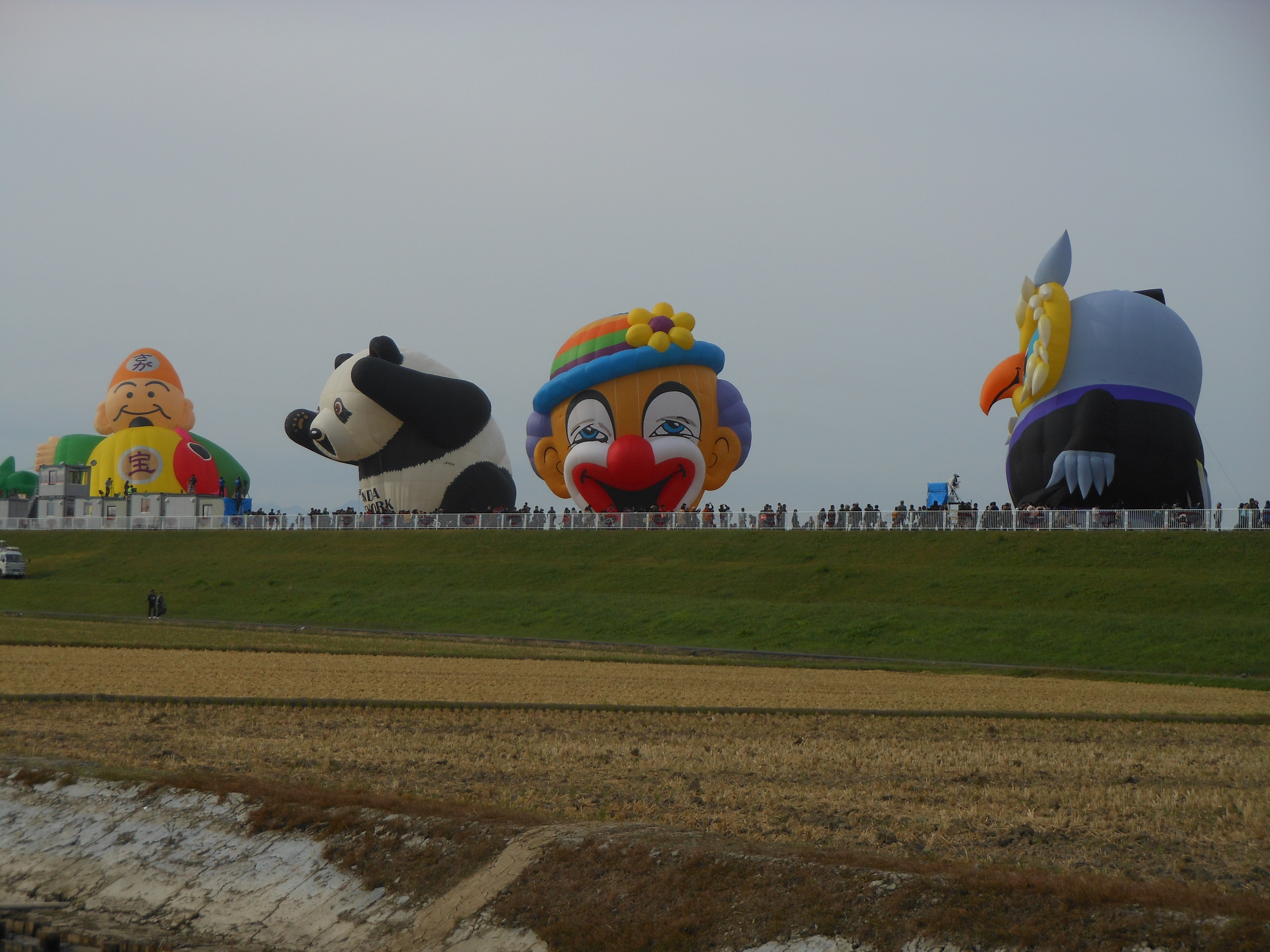 A view of various shapes of hot air balloons, 2015 Saga International Balloon Fiesta.